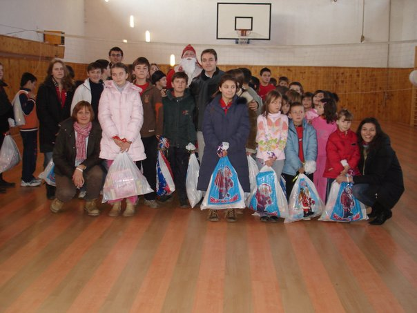 osmeh na dar